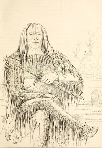 Original artwork of the head chief of the Blackfoot nation in the travel narrative Letters and Notes on the Manners, Customs, and Conditions of the North American Indians by George Catlin